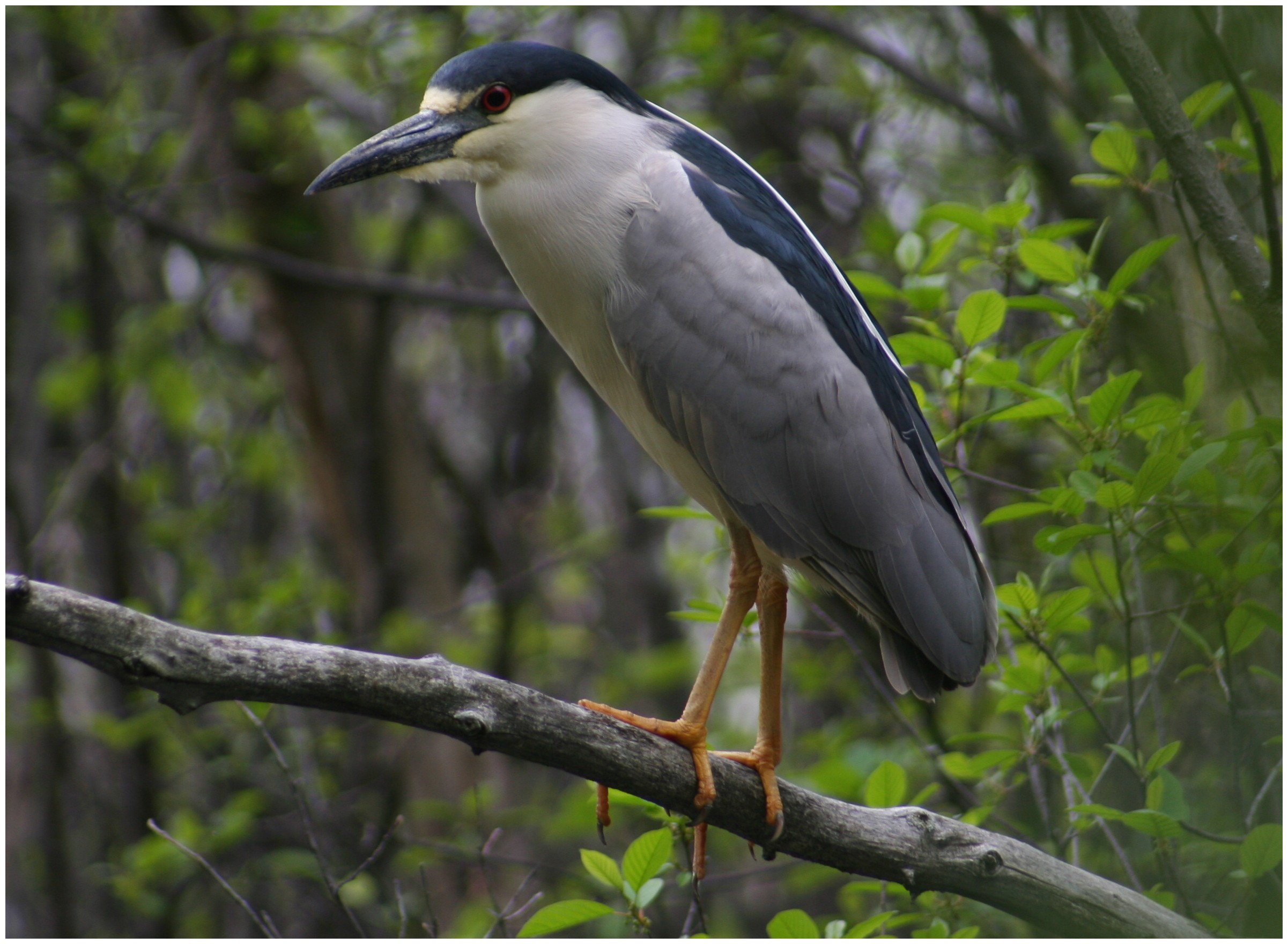 Black-Crowned Night Heron, Lake McKay Ottawa Canada